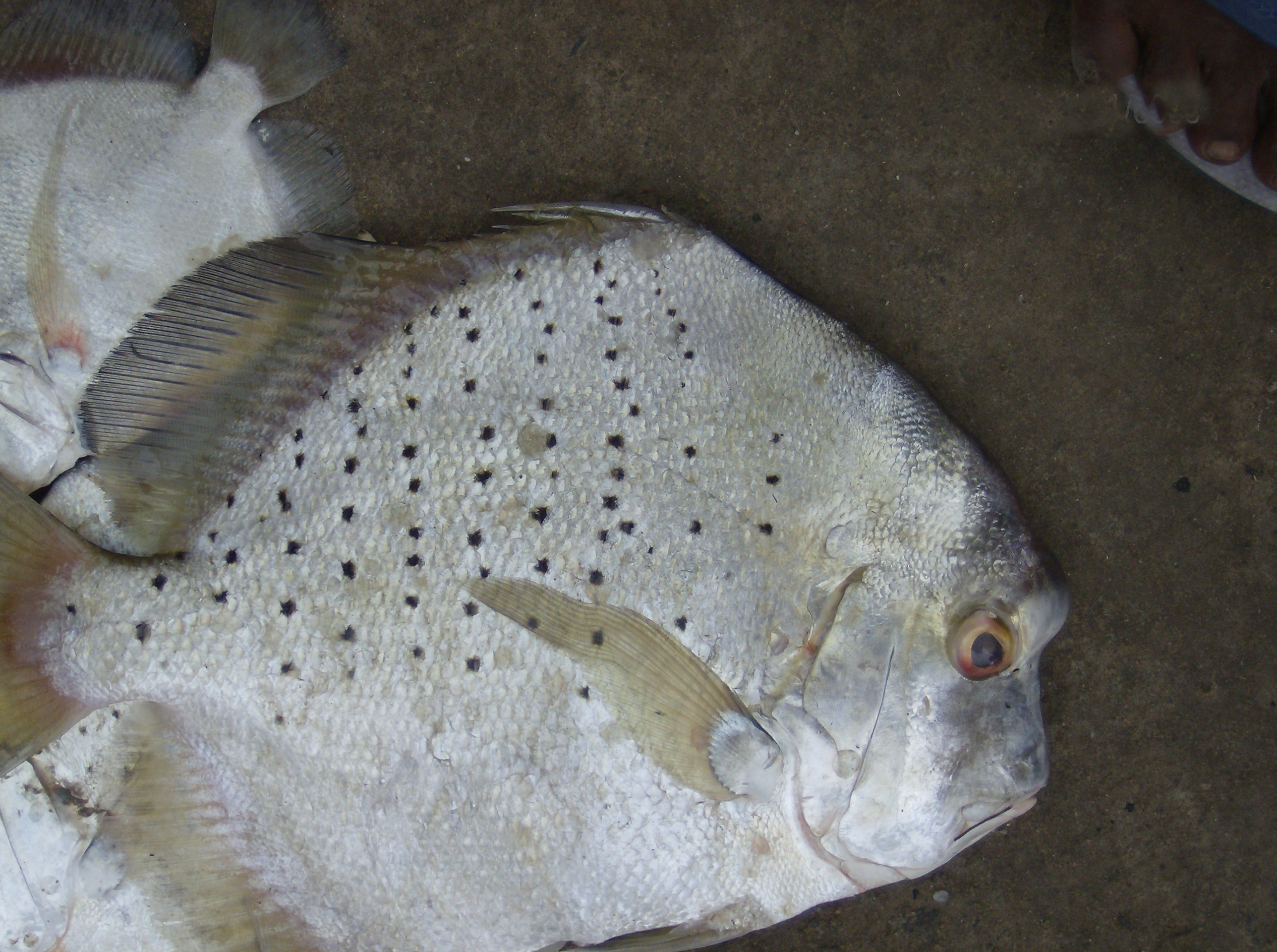 Spotted Sickefish in Machilipatnam Landing Center, Andhra Pradesh, India